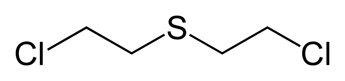 Skeletal formula of sulfur mustard